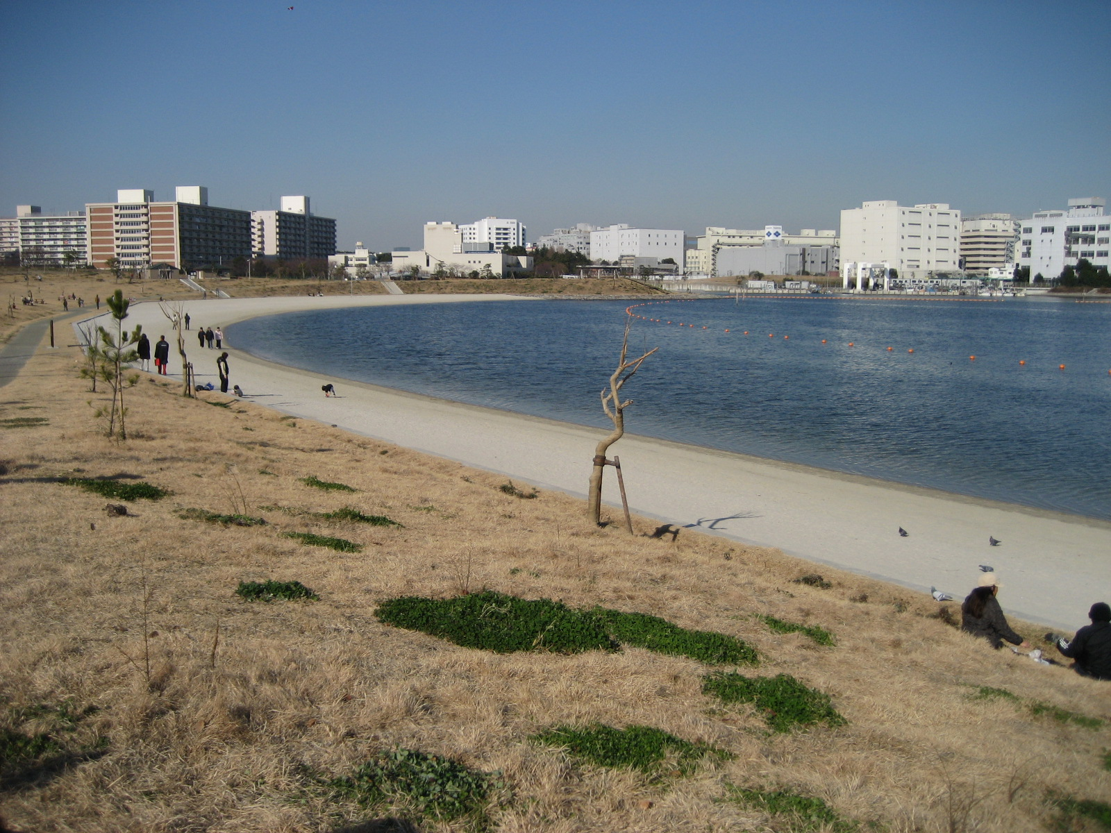 Oomori Furusato-no-Hamabe Park, view-from-south-edge